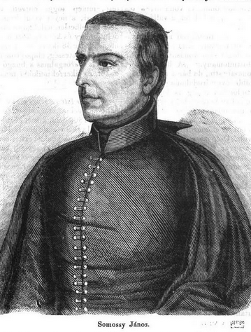 Portrait of Somosi János